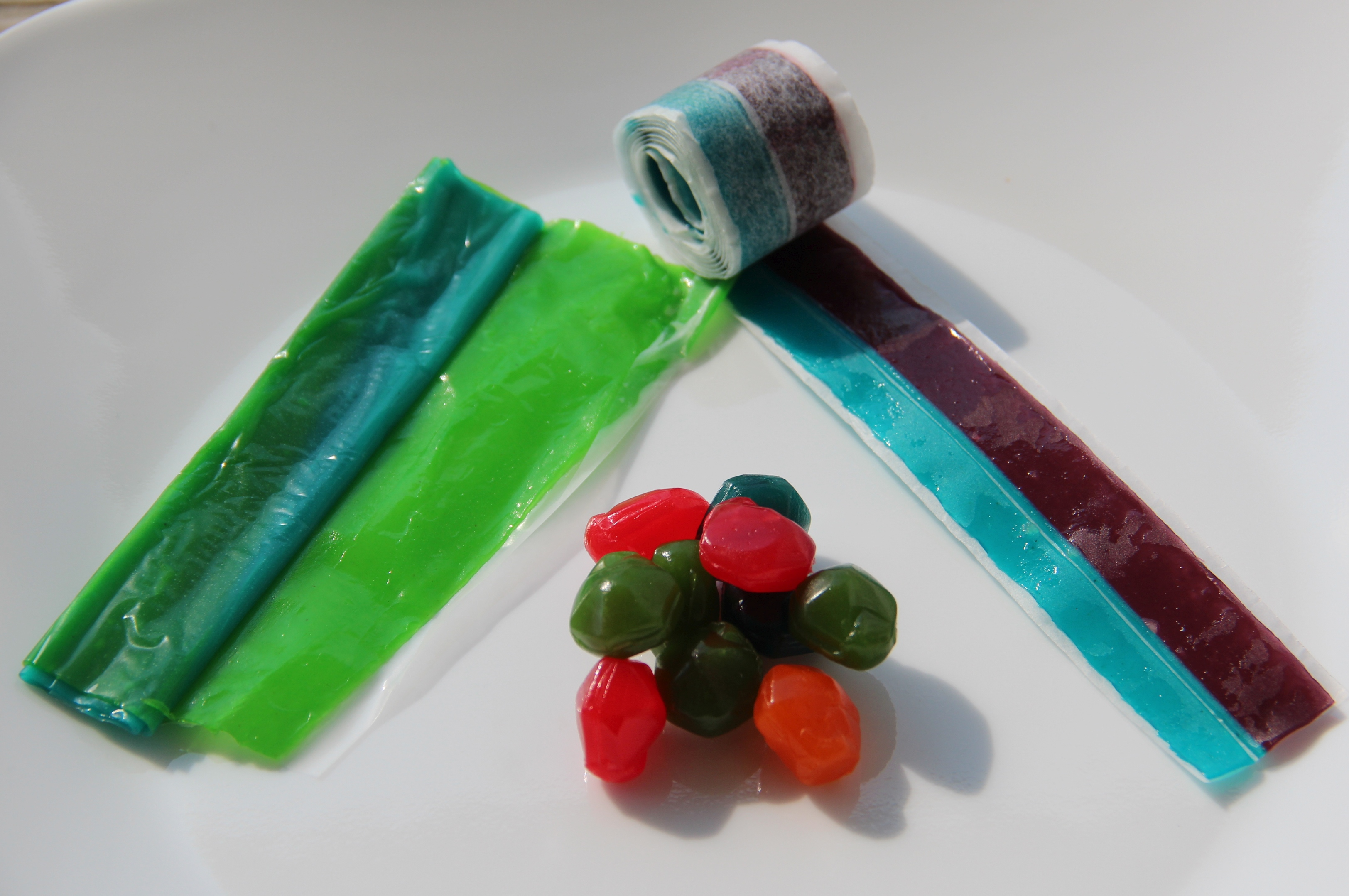 From left: Fruit Roll-Up, Fruit Gusher and Fruit by the Foot